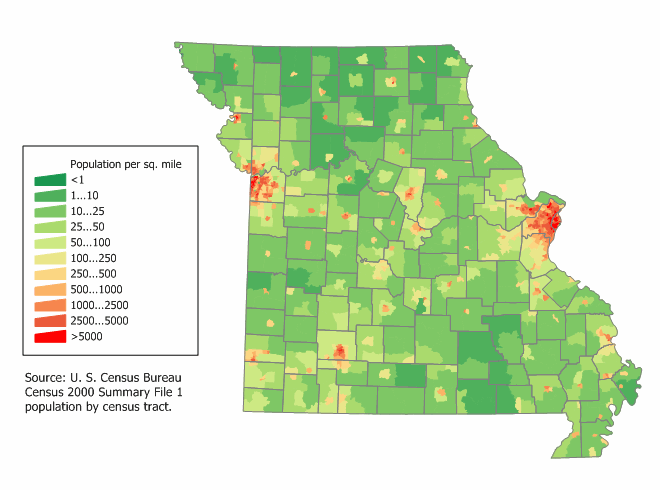 Missouri state population density map based on Census 2000 data. See the data lineage for a process description.